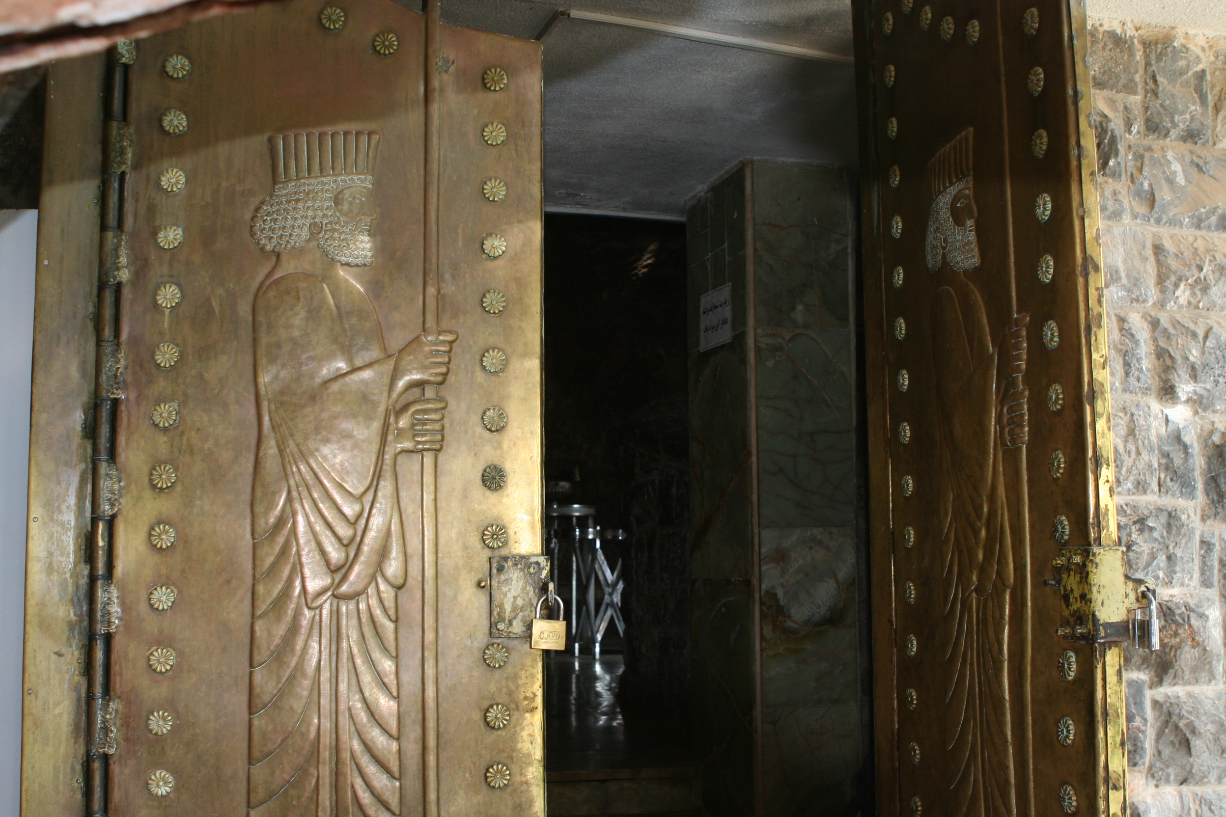 Doors of Zoroastrian temple in Yazd opening.